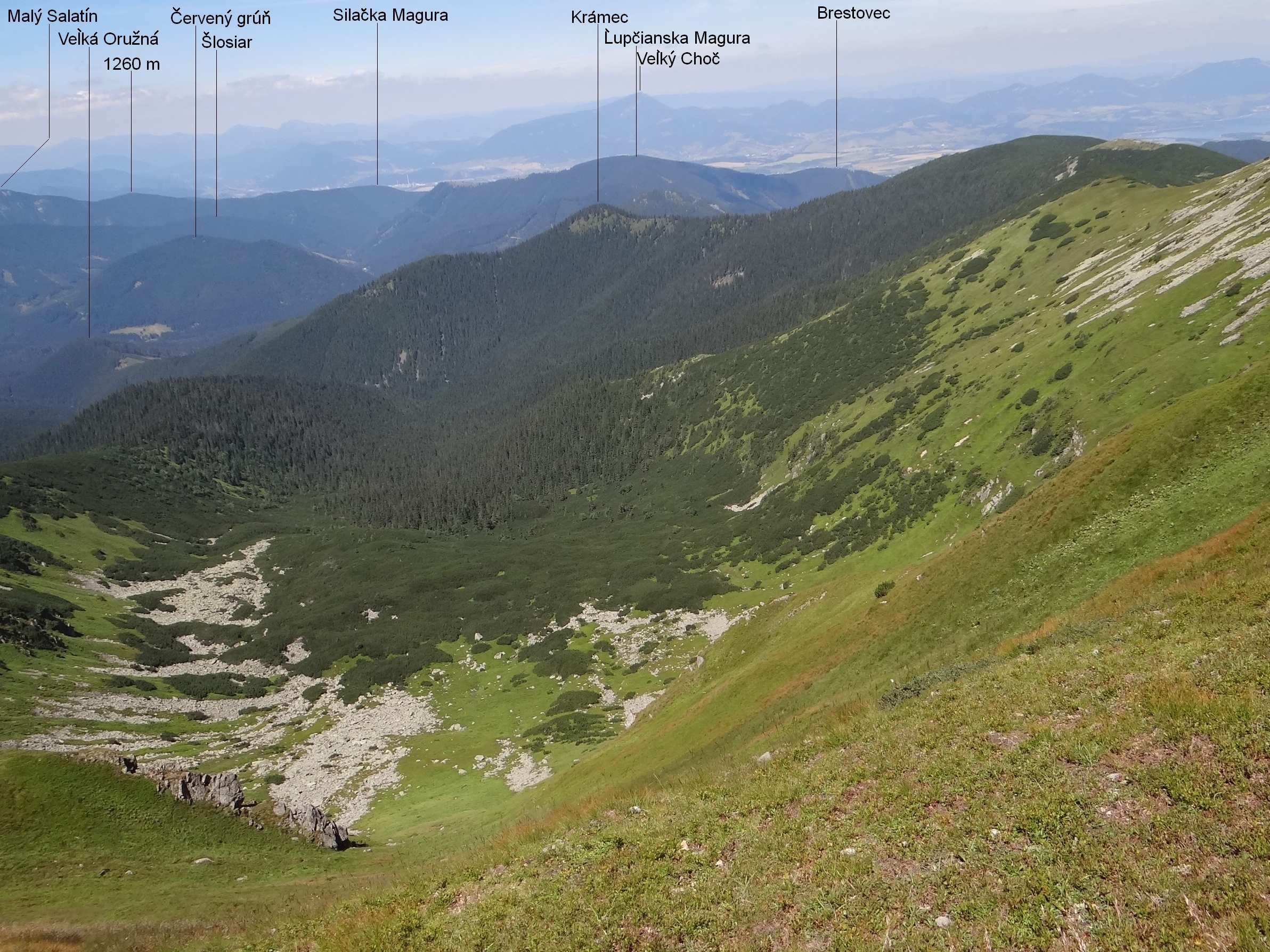 View from Chabenec